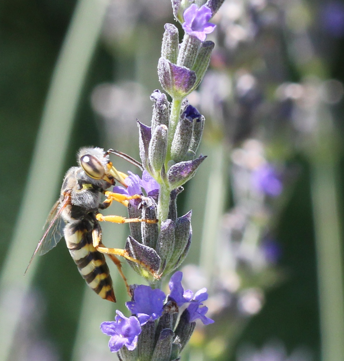 female of unidentified species of Bembix (Crabronidae). On Lavandula. Note long labrum